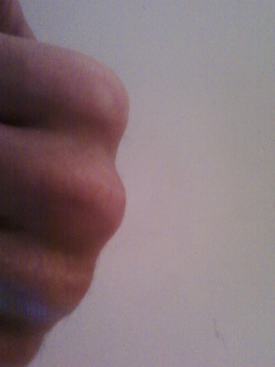 my knuckles